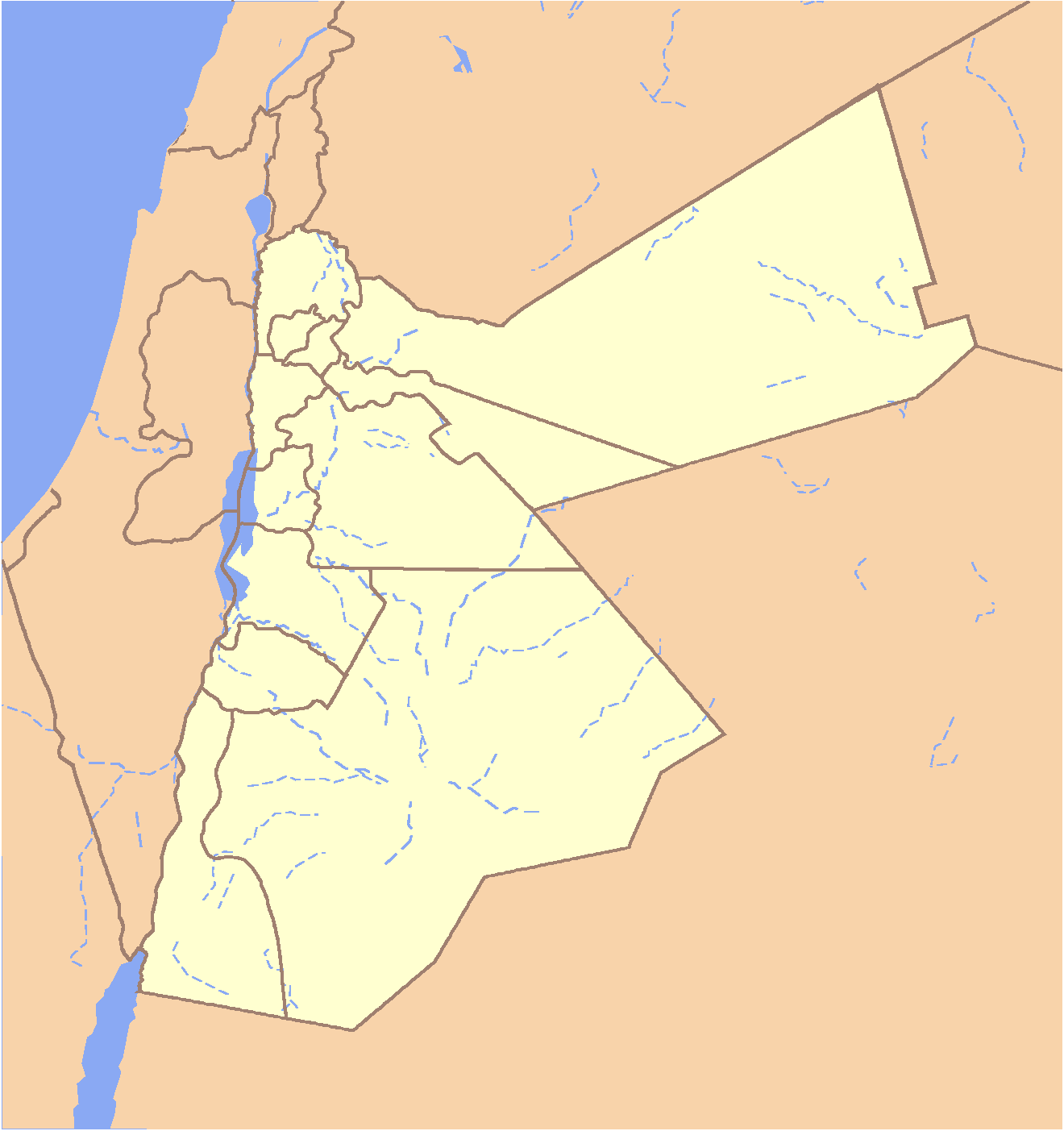 Locator map of Jordan. Left:34.25, bottom:28.75, right:39.75, top:33.75